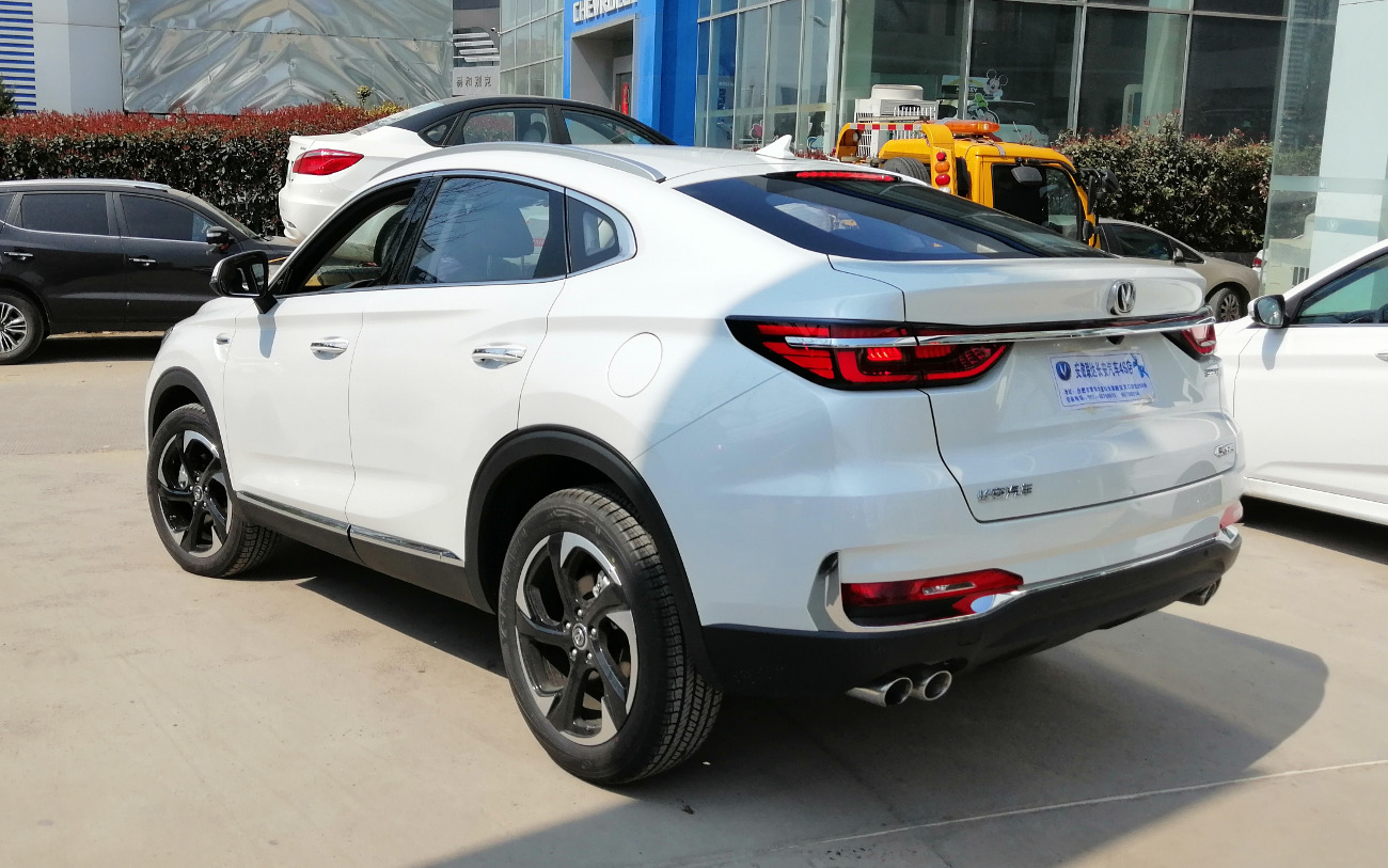 Chang'an CS85 photographed in Hefei, Anhui province, China.